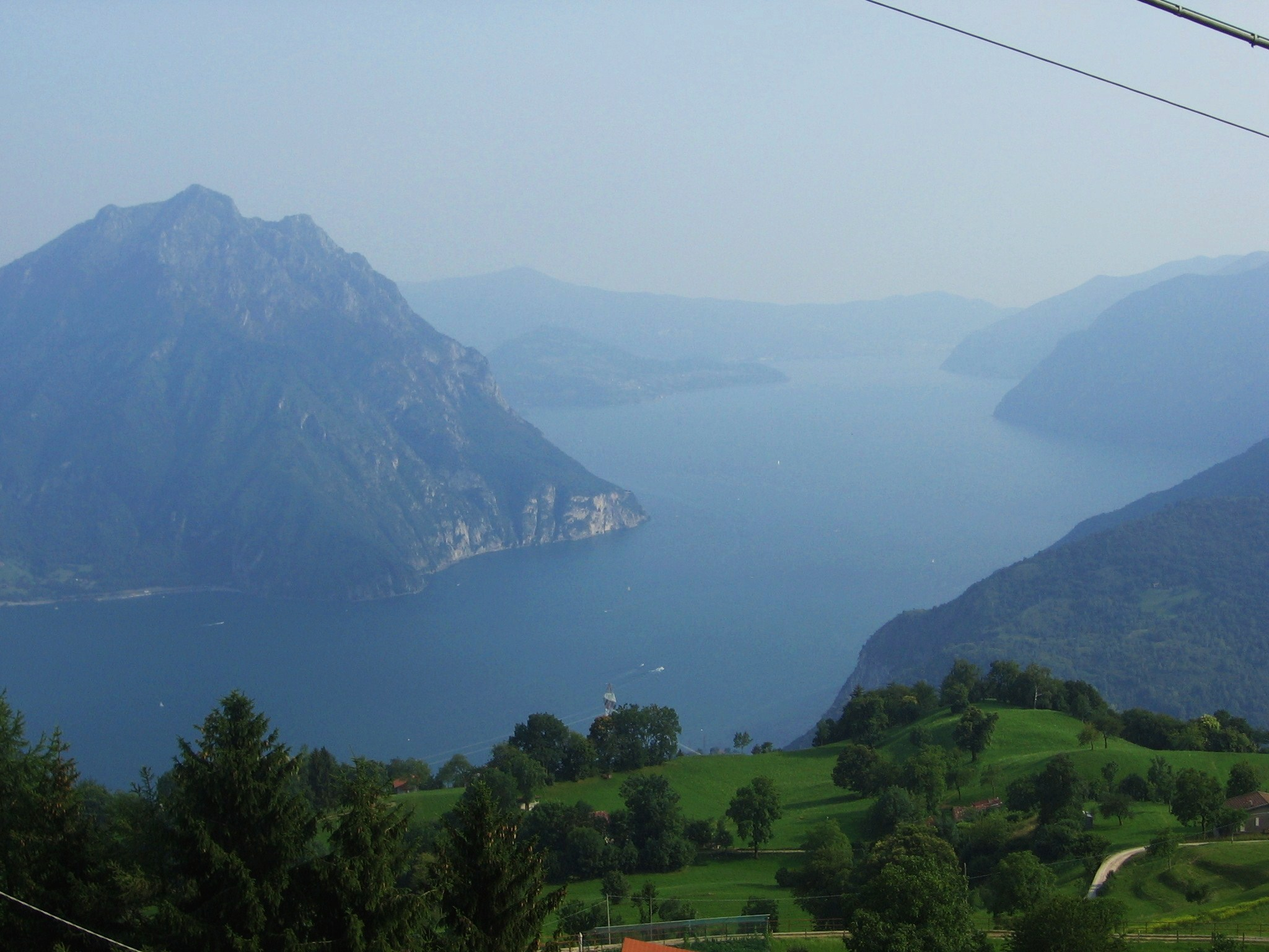 View of Lake Iseo from Bossico, Bergamo, Italy